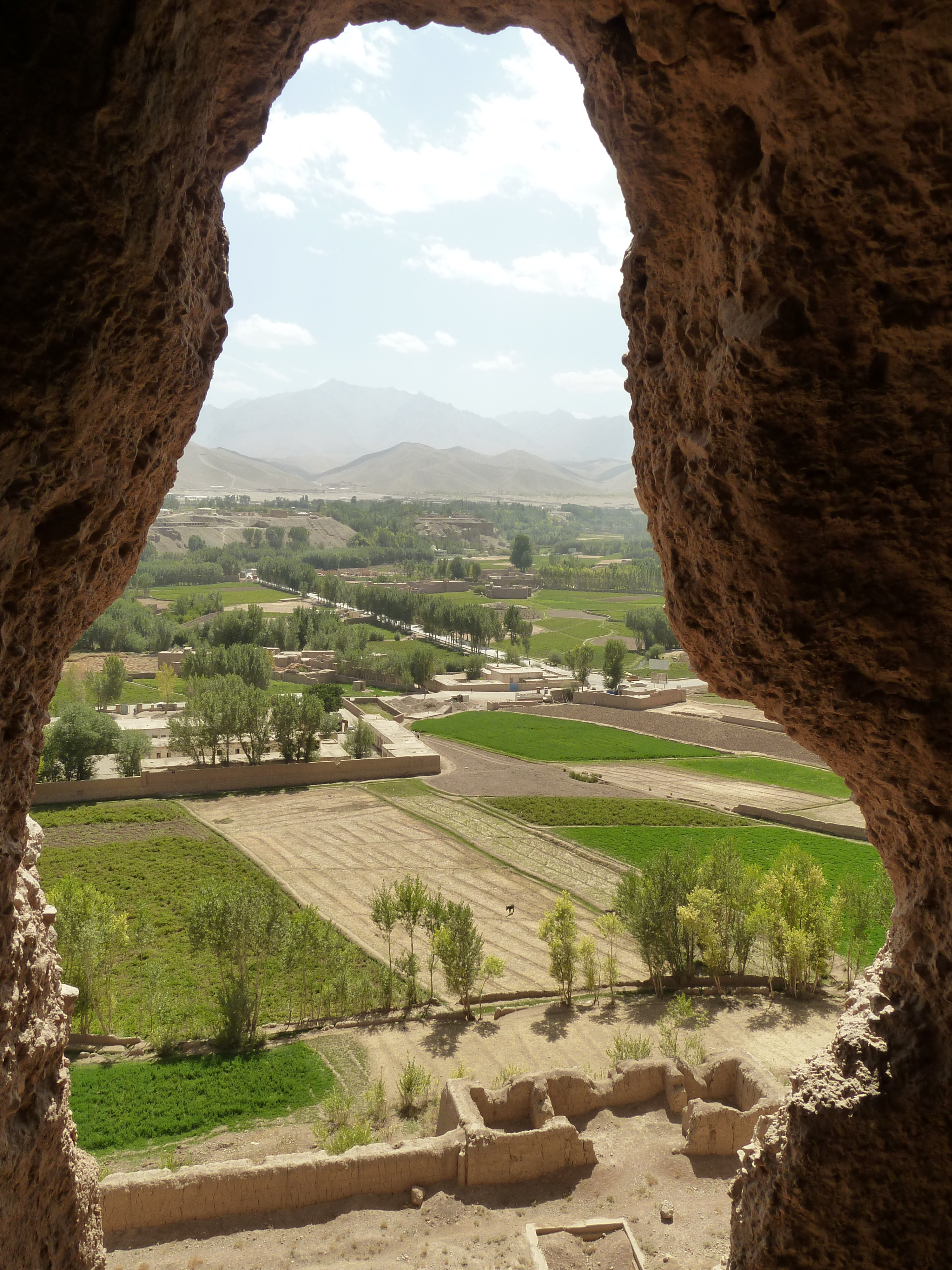 Afghanistan